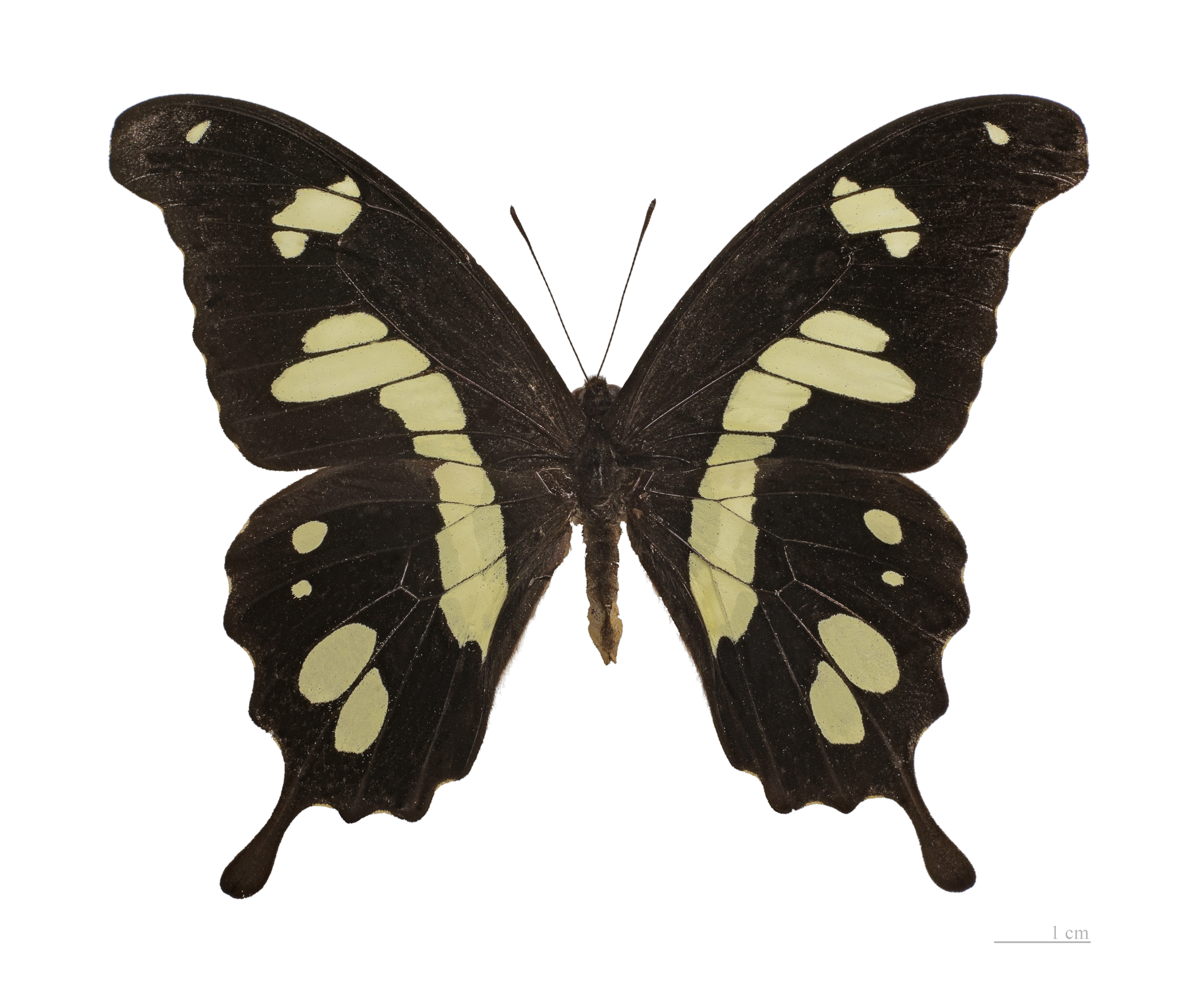 Hesperus Swallowtail ♂ - Dorsal side Locality: Boukoko, Central African Republic